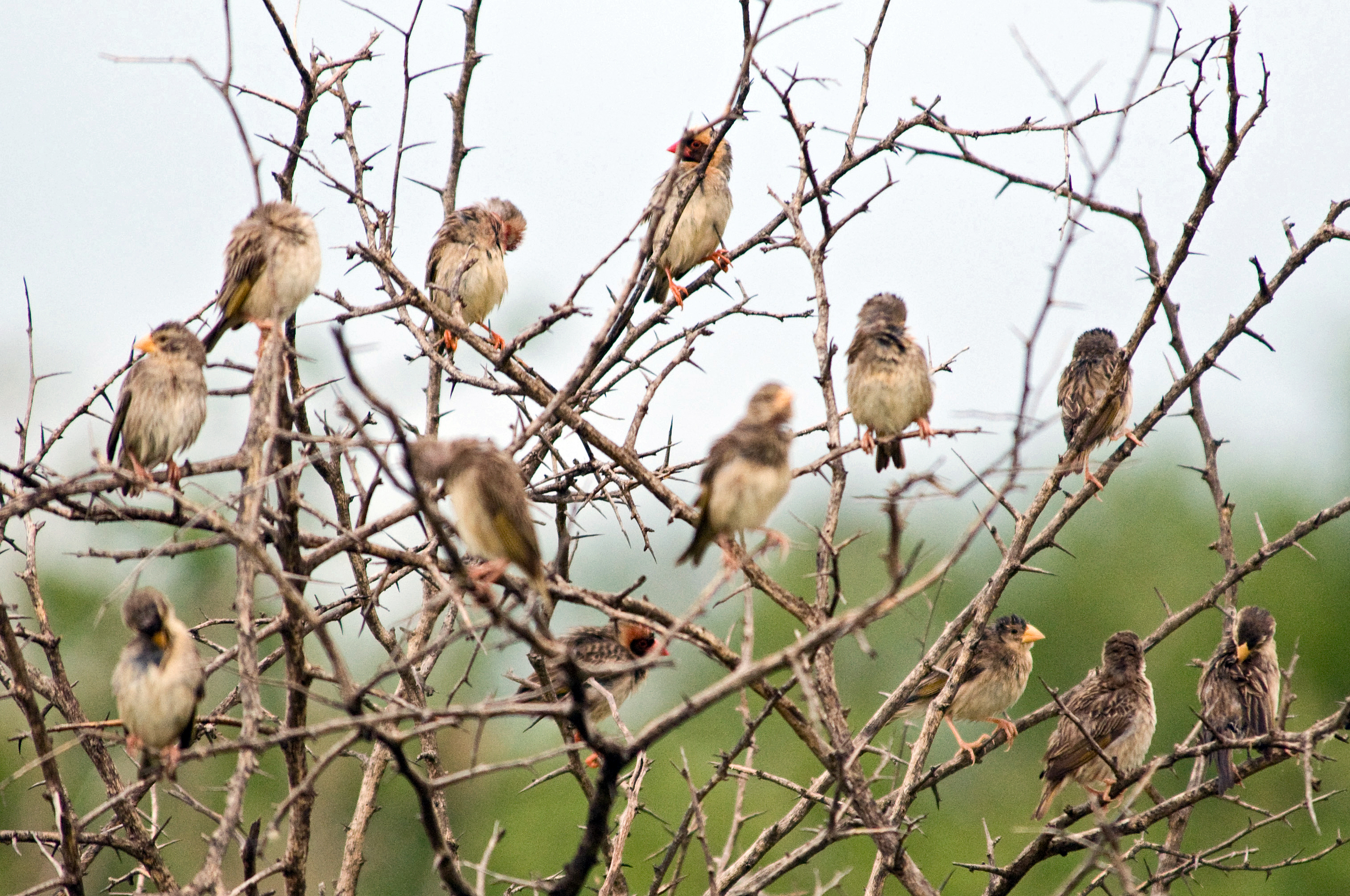 Red-billed Queleas (Quelea quelea) Dysmorodrepanis 20:22, 28 May 2008 (UTC)